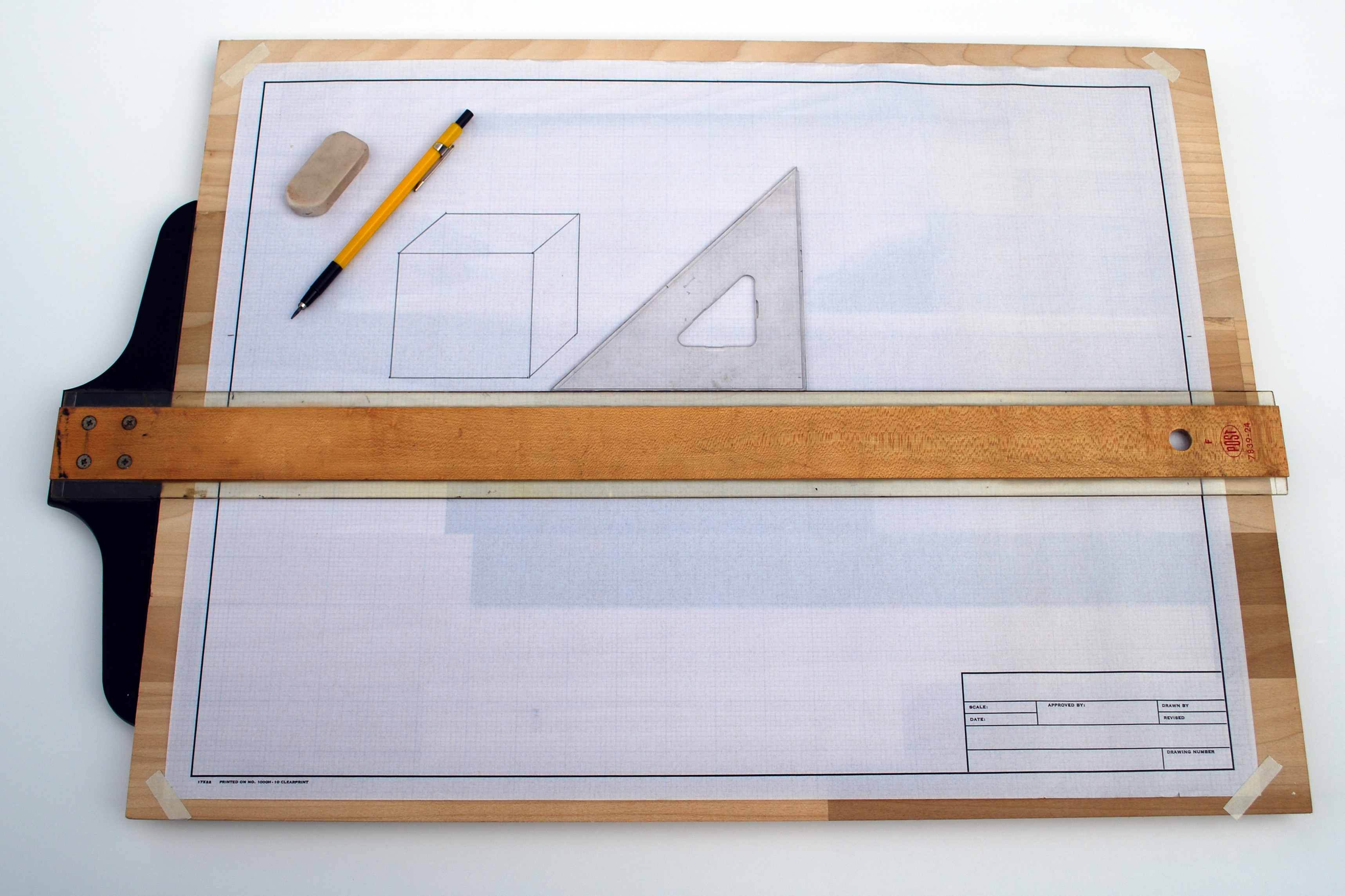 A drafting board with a T-Square and triangle. Photo by Michael Holley, October 24, 2012. Nikon D60 DSLR with existing light.